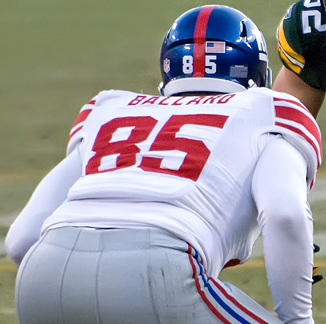 New York Giants vs. Green Bay Packers in the NFC Divisional Playoff Game at Lambeau Field on January 15, 2012. Photo by Mike Morbeck.